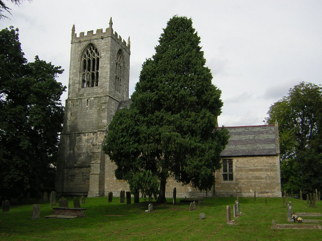 St.Oswald's church, Dunham-on-Trent, Notts. Huge early perpendicular gothic windows in the medieval tower are let down by a dreadful Victorian nave & chancel.